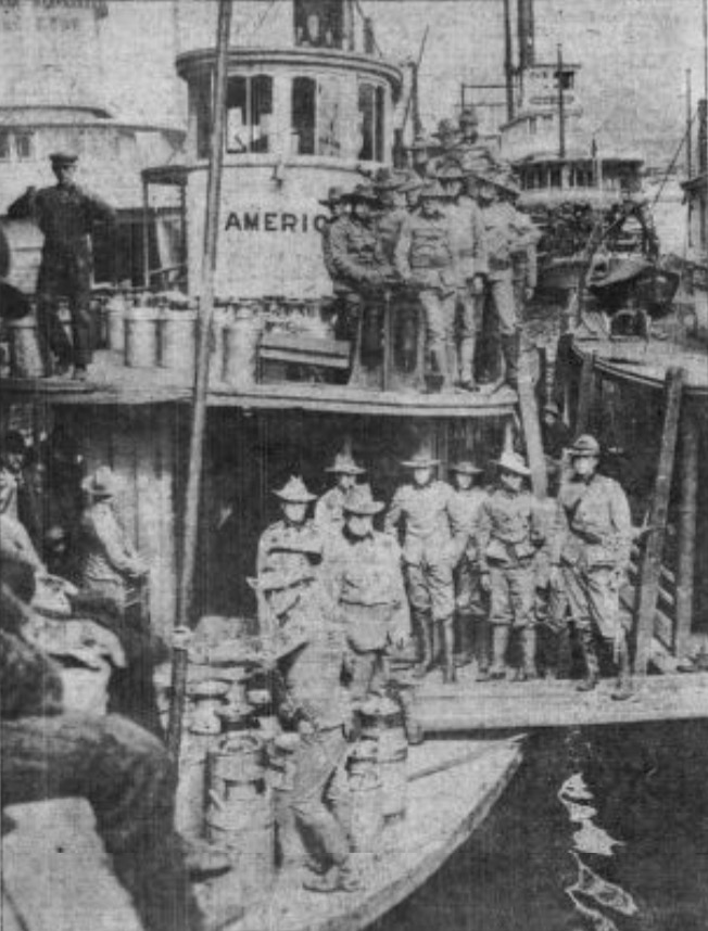 Steamer America in Portland embarking cadets from the Newill Military Academy for a camp in St. Helens.